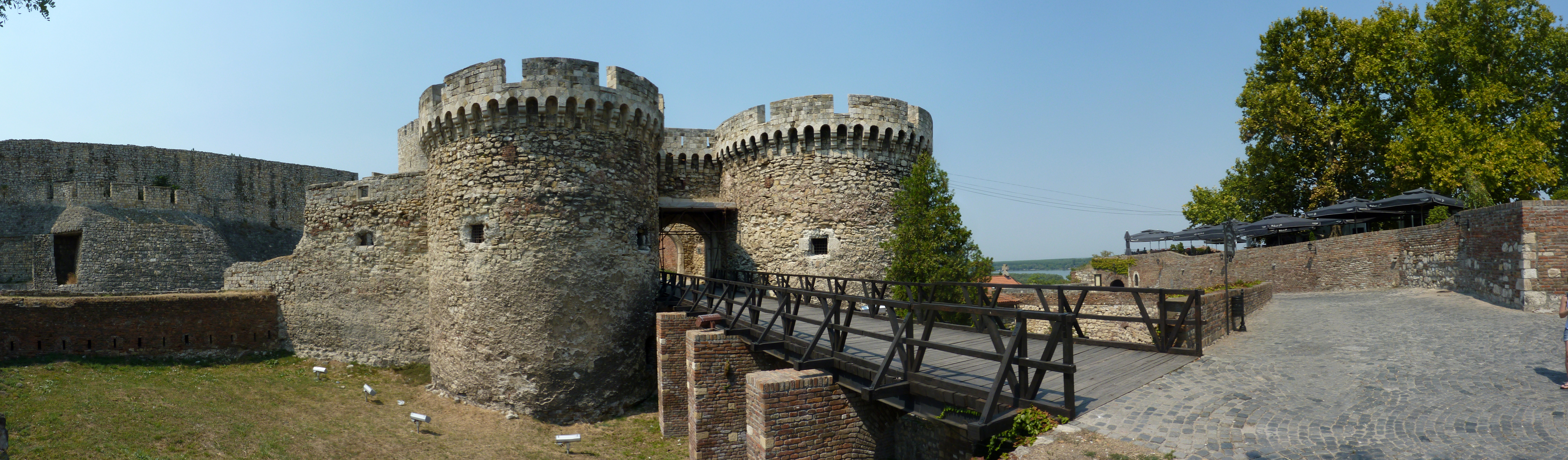 The entrance of Beogradska tvrđava The entrance of Beogradska tvrđava (Belgrade Fortress), Belgrade, Serbia.